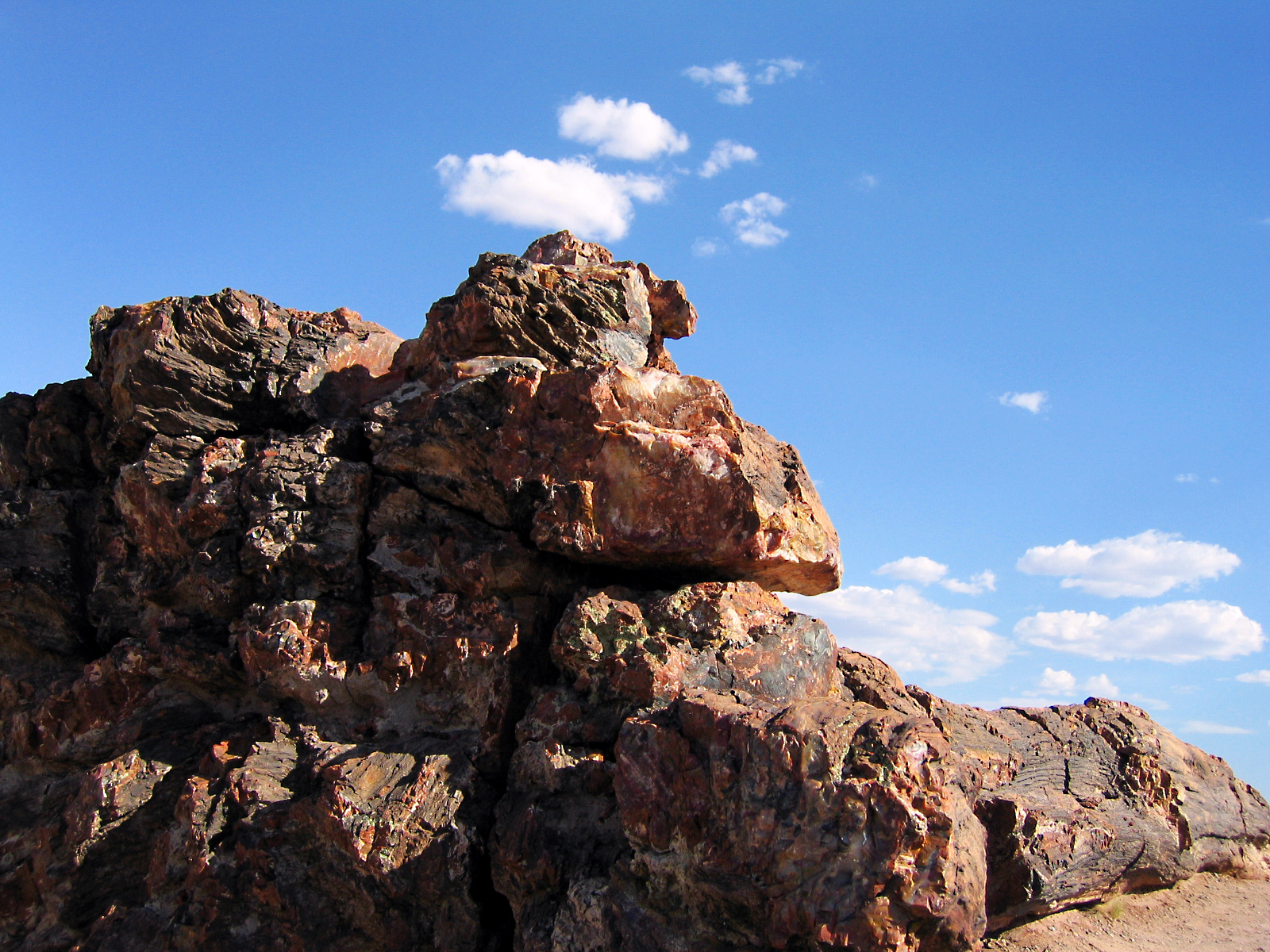 Petrified log. Painted Desert/Petrified Forest NP 2003.